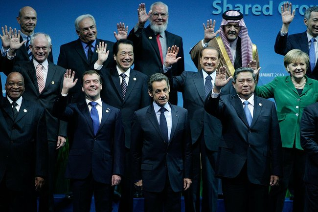 Participants in the plenary working session of the G20 heads of state and government.